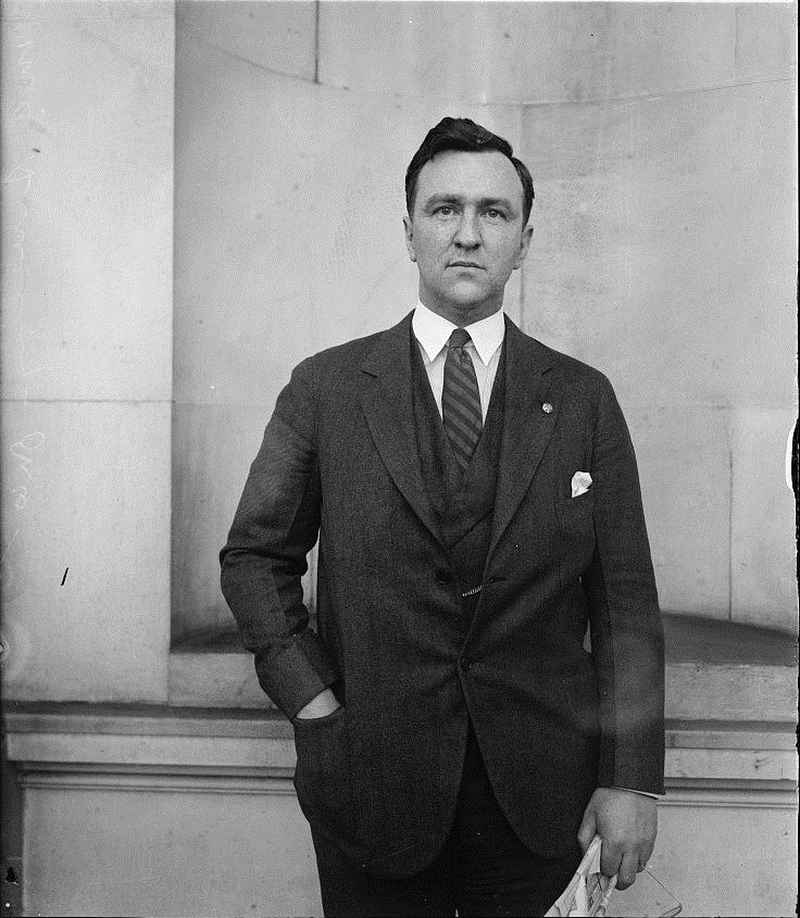 John McSweeney, congressman from Ohio.